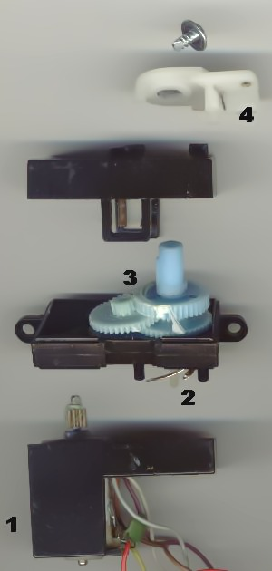 Small servomechanism as used for radio controlled models. Key to labels is below.